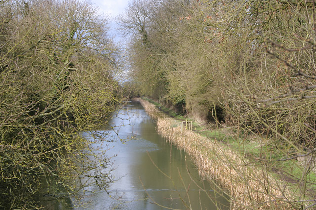 The Oakham Canal. Looking NNE from the Burley Road bridge. See comments in SK8610. The canal was started in 1795, opened in 1802 costing almost £70,000 to build. It was 15 miles long, with 19 broad locks. More information about the Melton Navigation, of which this canal is a part, at